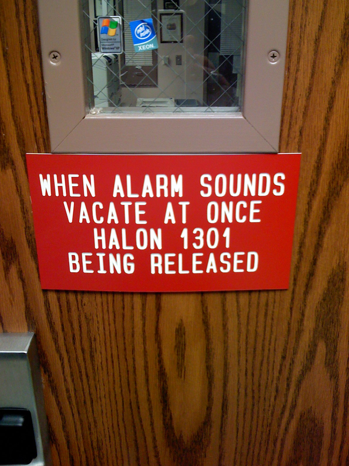 Warning sign about halon fire suppression